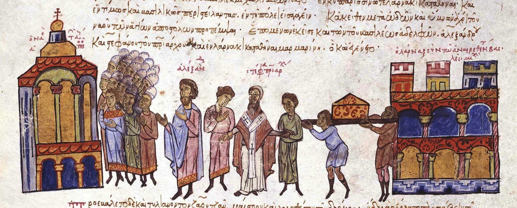 Translation of the relics of Emperor Michael III from Chrysopolis to the Church of the Holy Apostles.